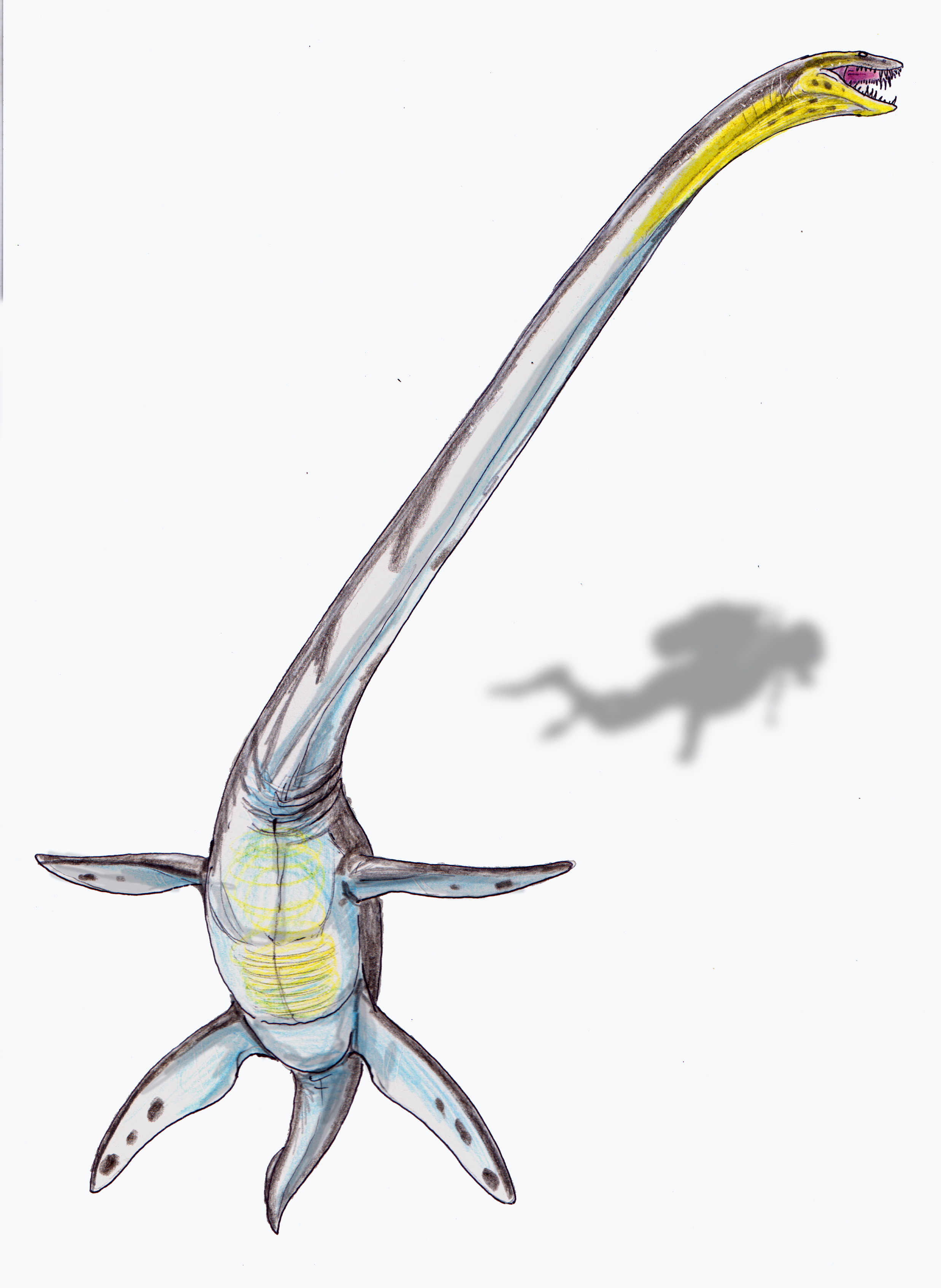 Thalassomedon hanningtoni, giant elasmosurid plesiosaurian from Late Cretaceous (Cenomanian ) of North America.